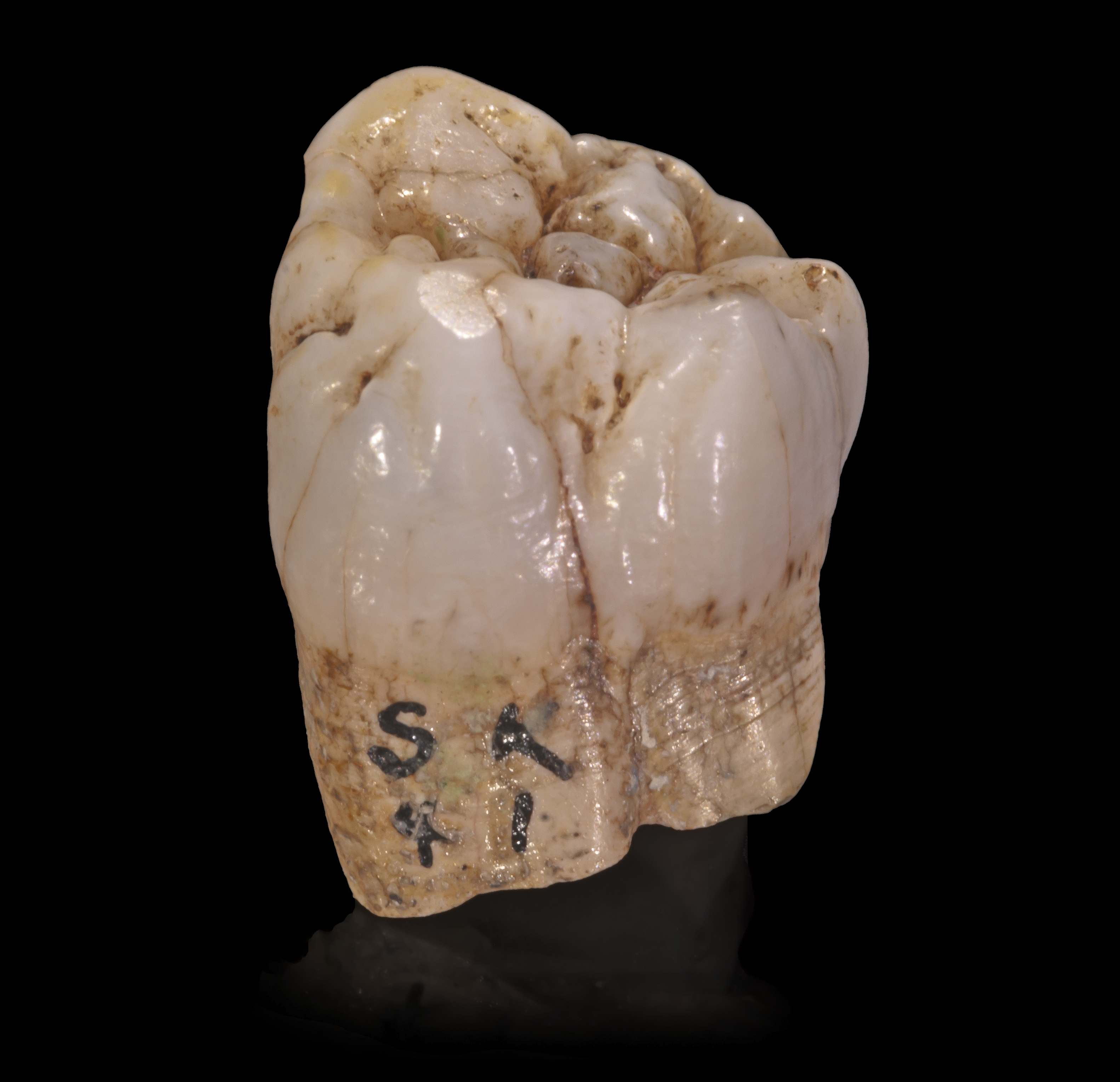 Tooth of Paranthropus robustus SKX 11 from Swartkrans (26°00'S 27°45'E), Gauteng, South Africa to 1.8 million years. Collection of the Transvaal Museum, Northern Flagship Institute, Pretoria South-Africa.(21.53x15.20x15.49 mm)